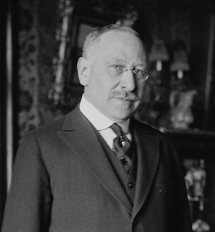 American business executive and philanthropist Julius Rosenwald (1882-1932)